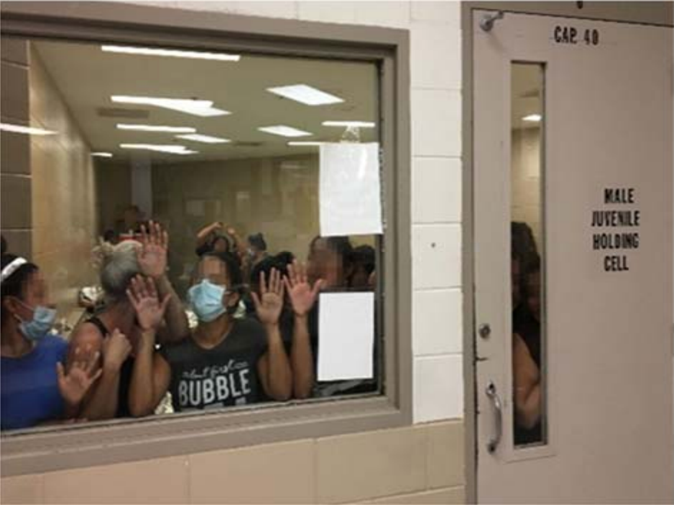 Fifty-one adult women held in a cell designated for male juveniles with a capacity for 40, observed by OIG on June 12, 2019, at Border Patrol’s Fort Brown Station.